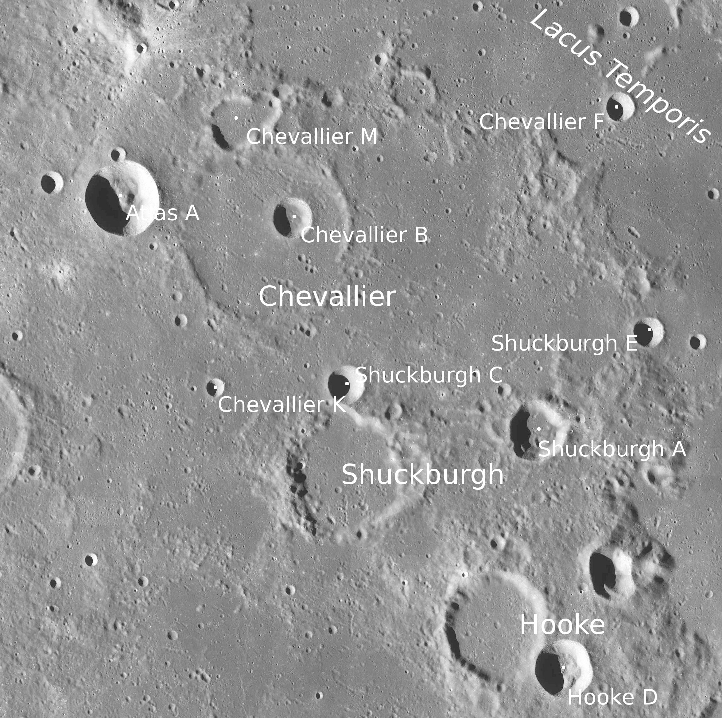 Craters Chevallier, Shuckburgh and Hooke (detail of LRO - WAC global moon mosaic; Mercator projection)